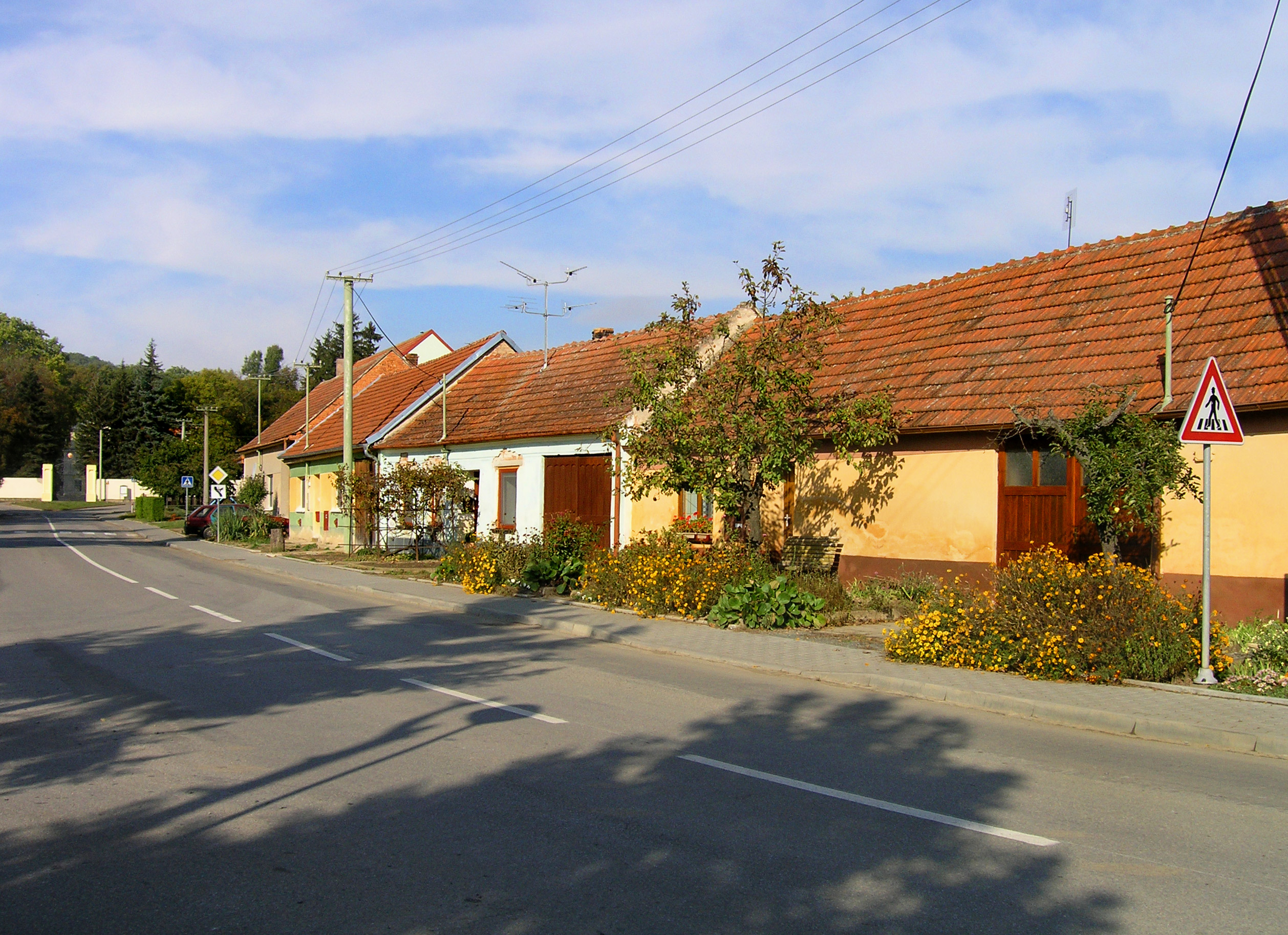 Main street in Diváky, Czech Republic